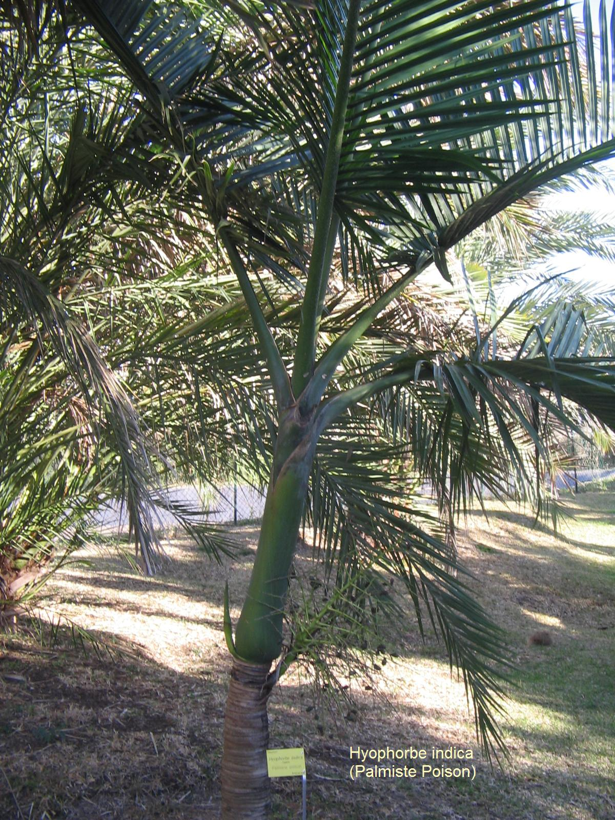 Hyophorbe.indica - Palmiste Poison in the Garden of the Botanic Institute of the Mascerins in Saint-Leu - Reunion